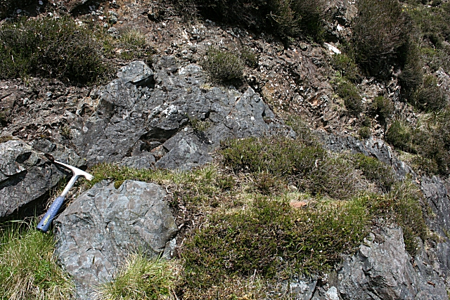 Dolerite-porcellanite Contact This is one for the geologists. The black rock is the hard porcellanite which was used to make axes and tools, and the brownish rock above is the dolerite. The hammer is for scale.